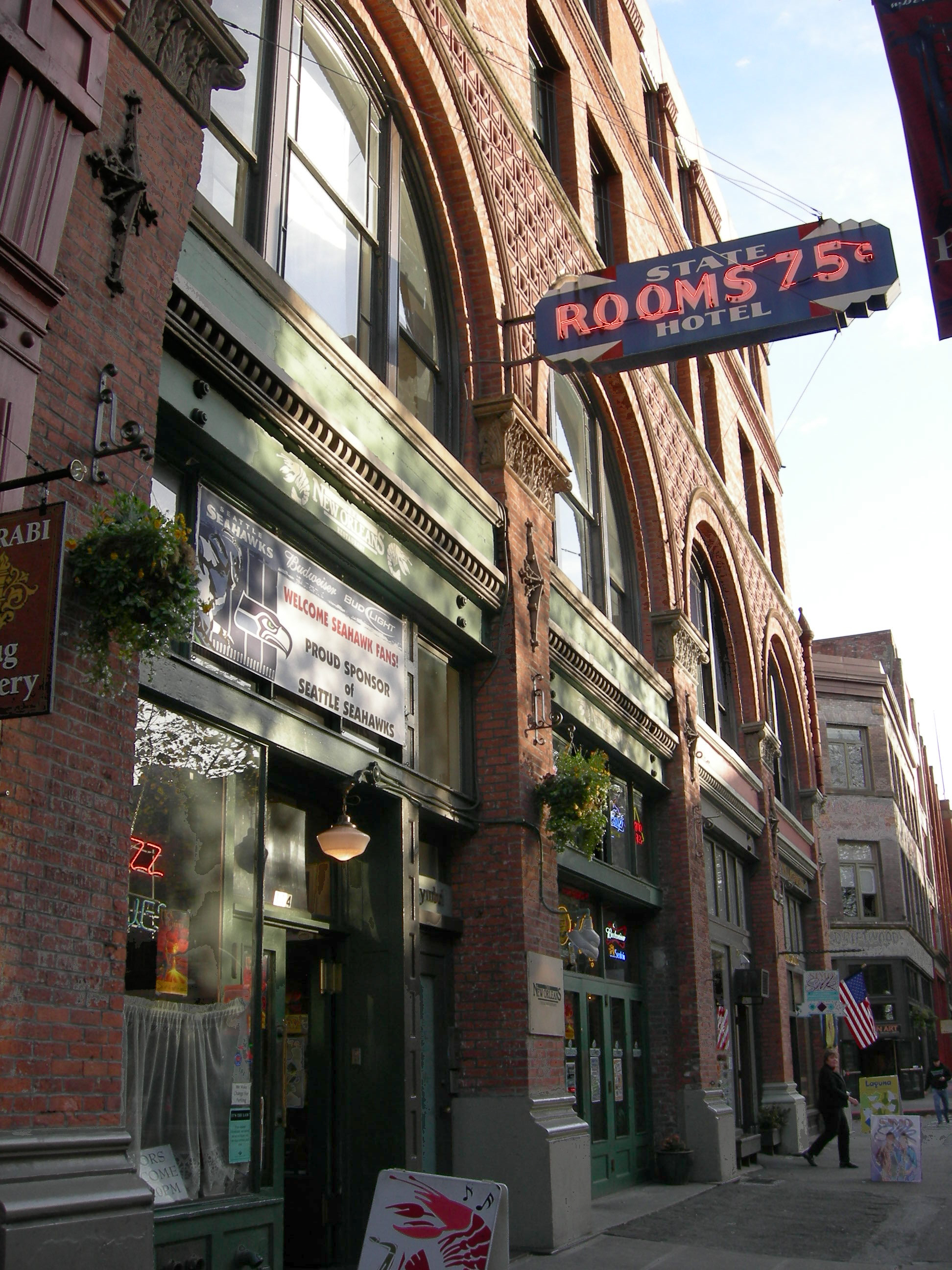 State Hotel sign, the Delmar Building and State Hotel, also known as Terry and Kittinger Building, 108 S Washington Street (corner of 1st Avenue South) Pioneer Square neighborhood, Seattle, Washington, USA. Built 1891. For more information see Summary for 108 S Washington ST S / Parcel ID 5247800481, Seattle Department of Neighborhoods.